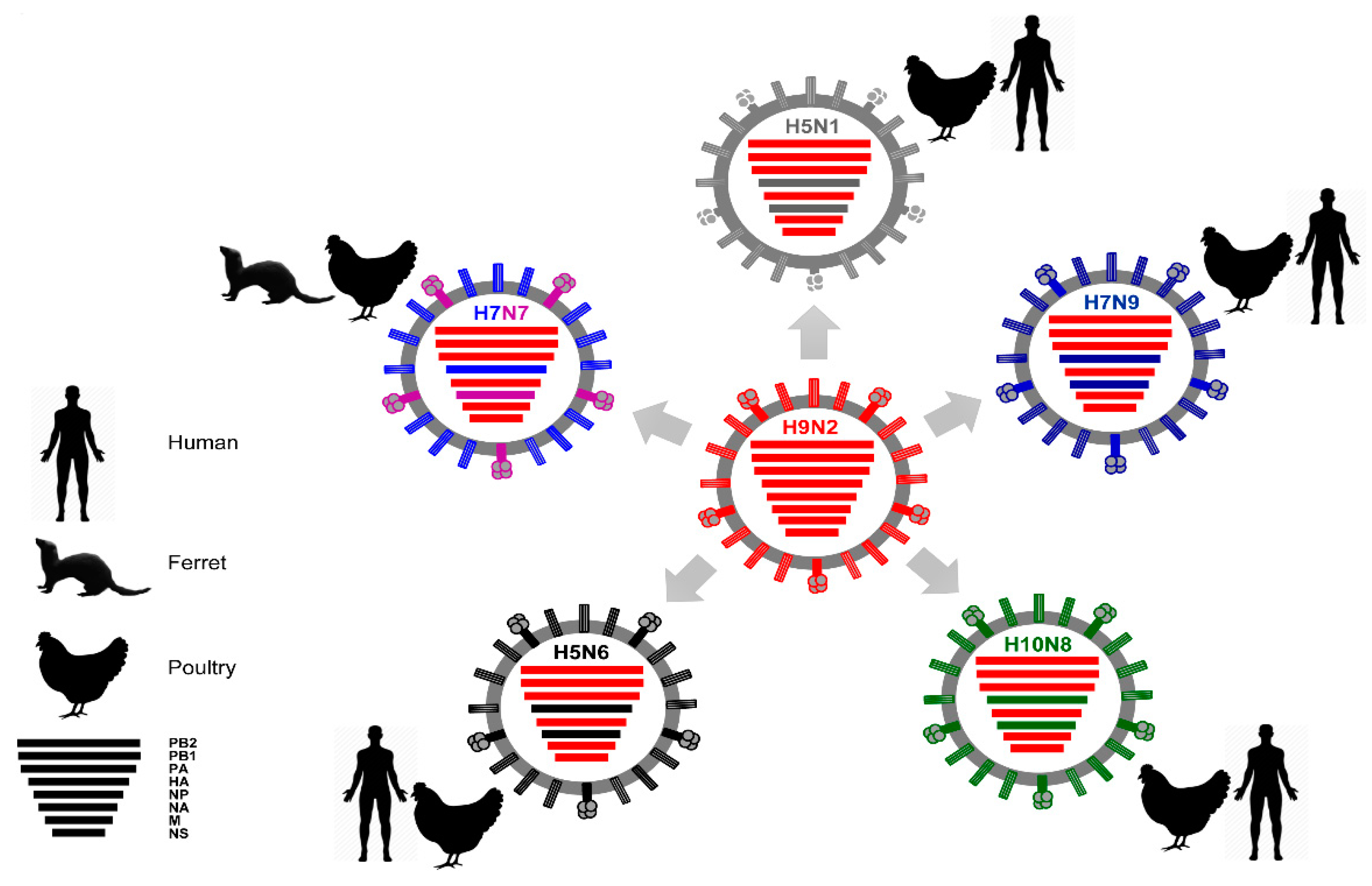 H9N2-type influenza A viruses donate their internal genes to other IAVs. Recent studies revealed the contribution of the internal genes of H9N2 in the genesis of various, recently evolved AIV strains with zoonotic potential [135,138,139]. Poultry (chicken pictogram) served as mixing hosts for emergence of these influenza reassortants, which are then transmitted naturally to humans (human pictogram), or evaluated experimentally in ferrets (ferret pictogram), leading to infections/deaths.